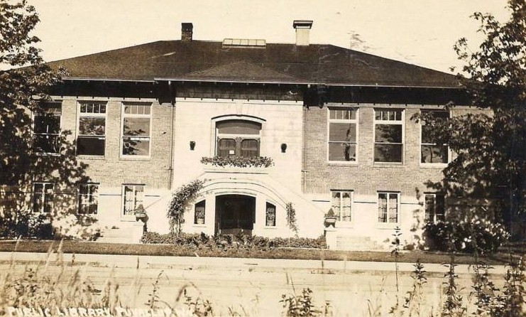 The Carnegie Library in Puyallup located just south of downtown. It was razed in the 1950's.